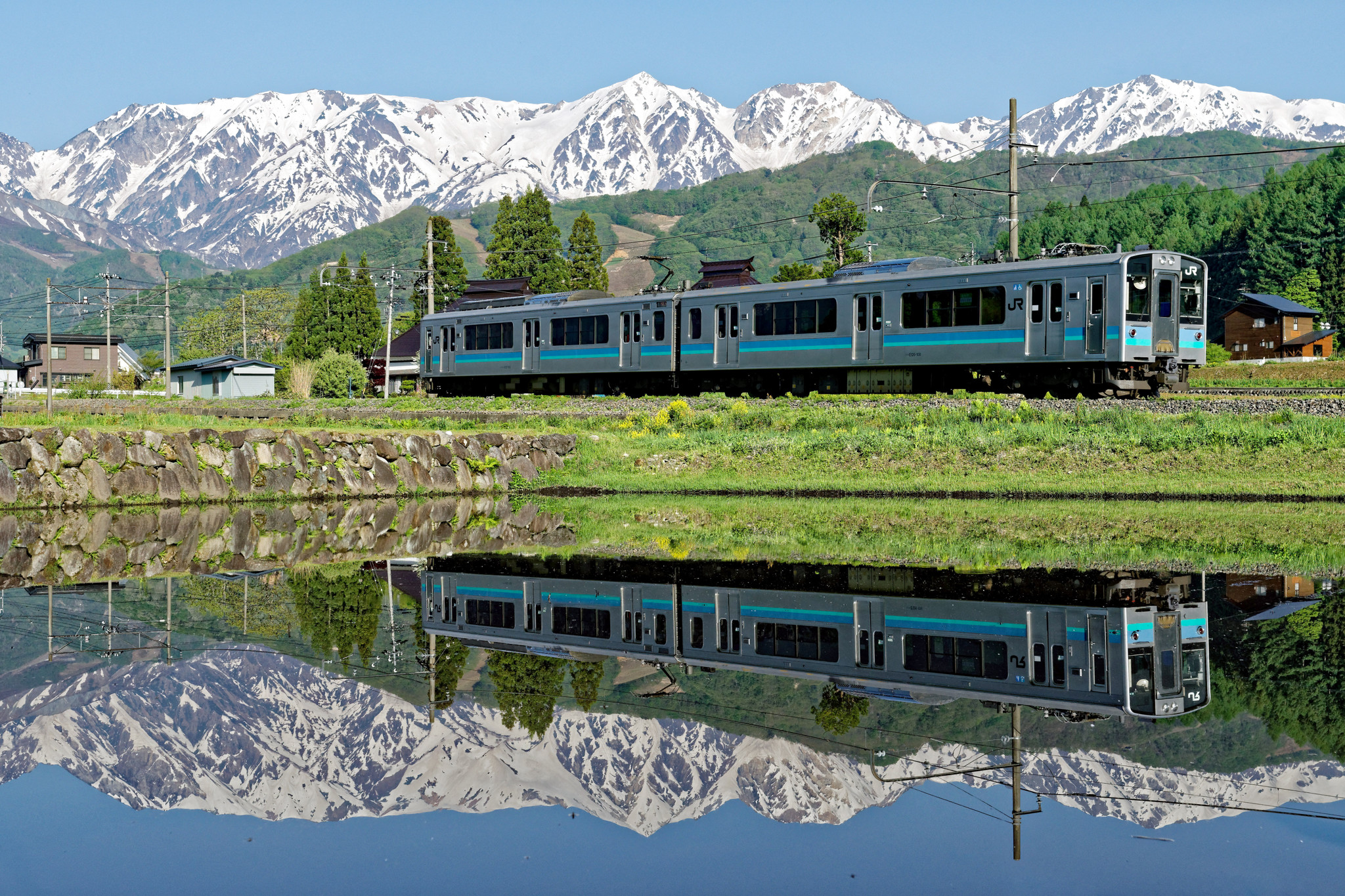 A JR East E127-100 series two-car EMU between Shinano-Moriue and Hakubaoike stations on the Oito Line in Hakuba, Nagano Prefecture, Japan